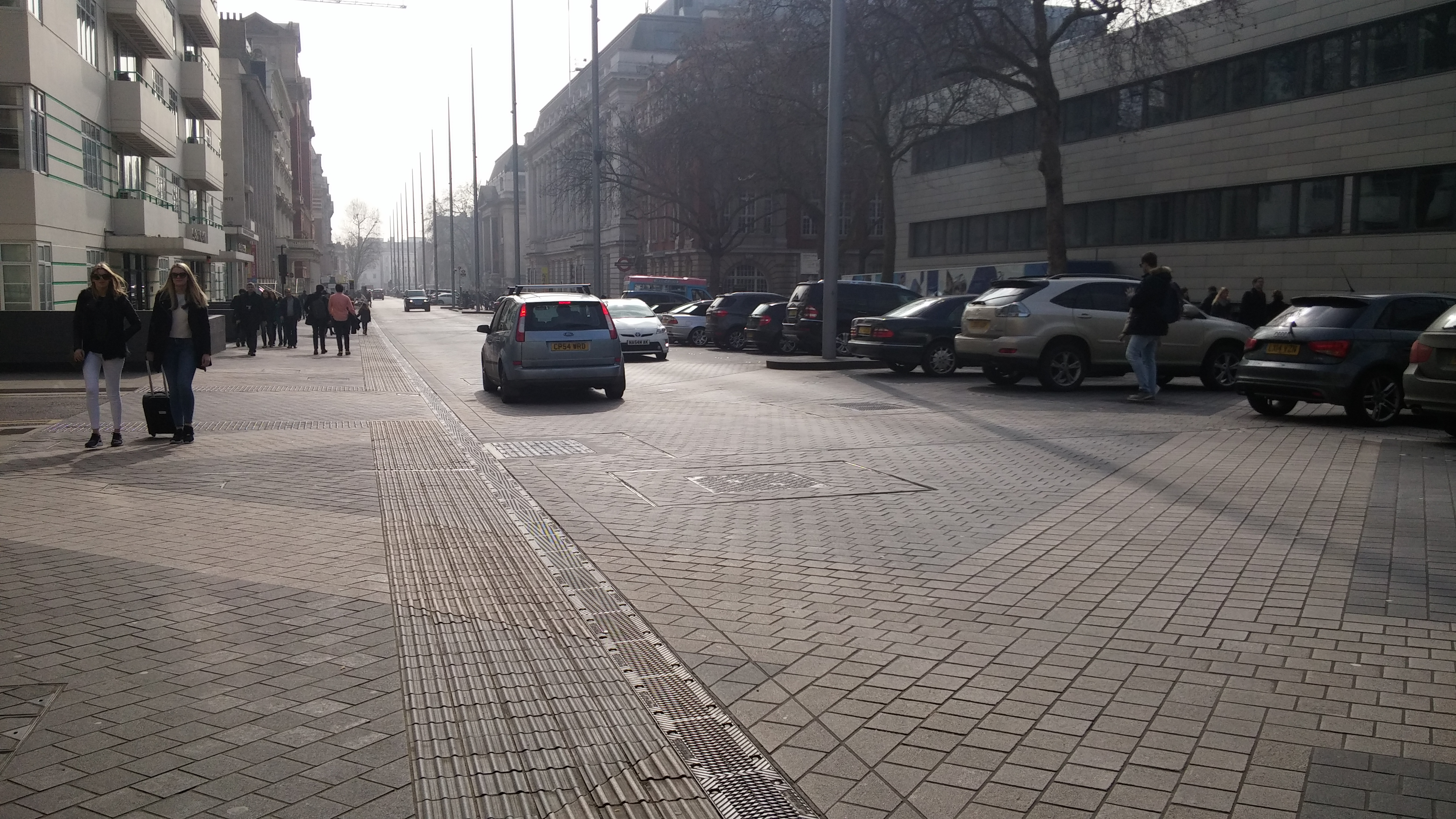 Exhibition Road, London, segregation in "shared space"